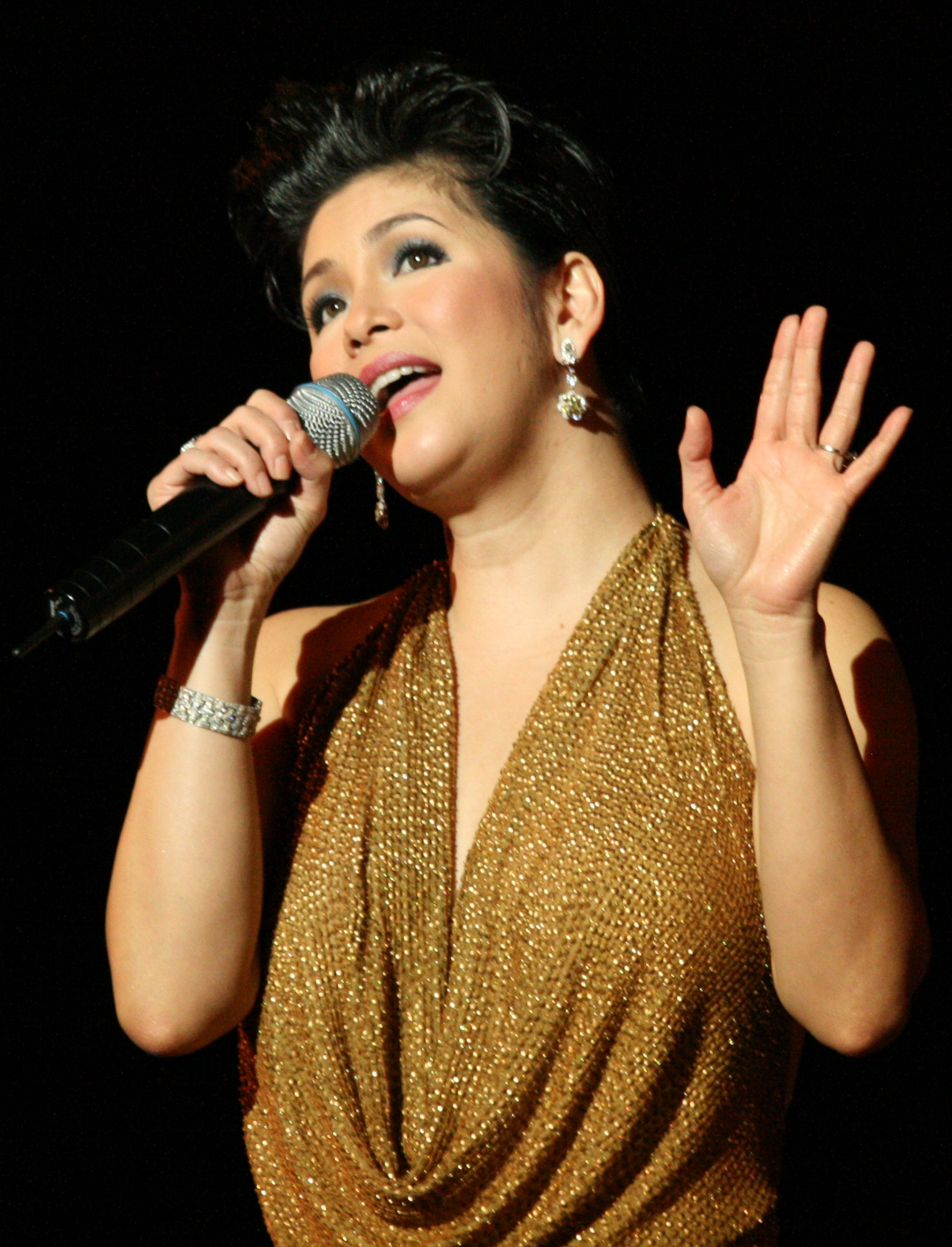 Filipino singer, actress, record producer and TV host Regine Velasquez.